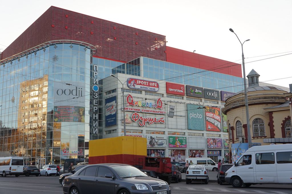 A shopping mall in Dnipropetrovsk